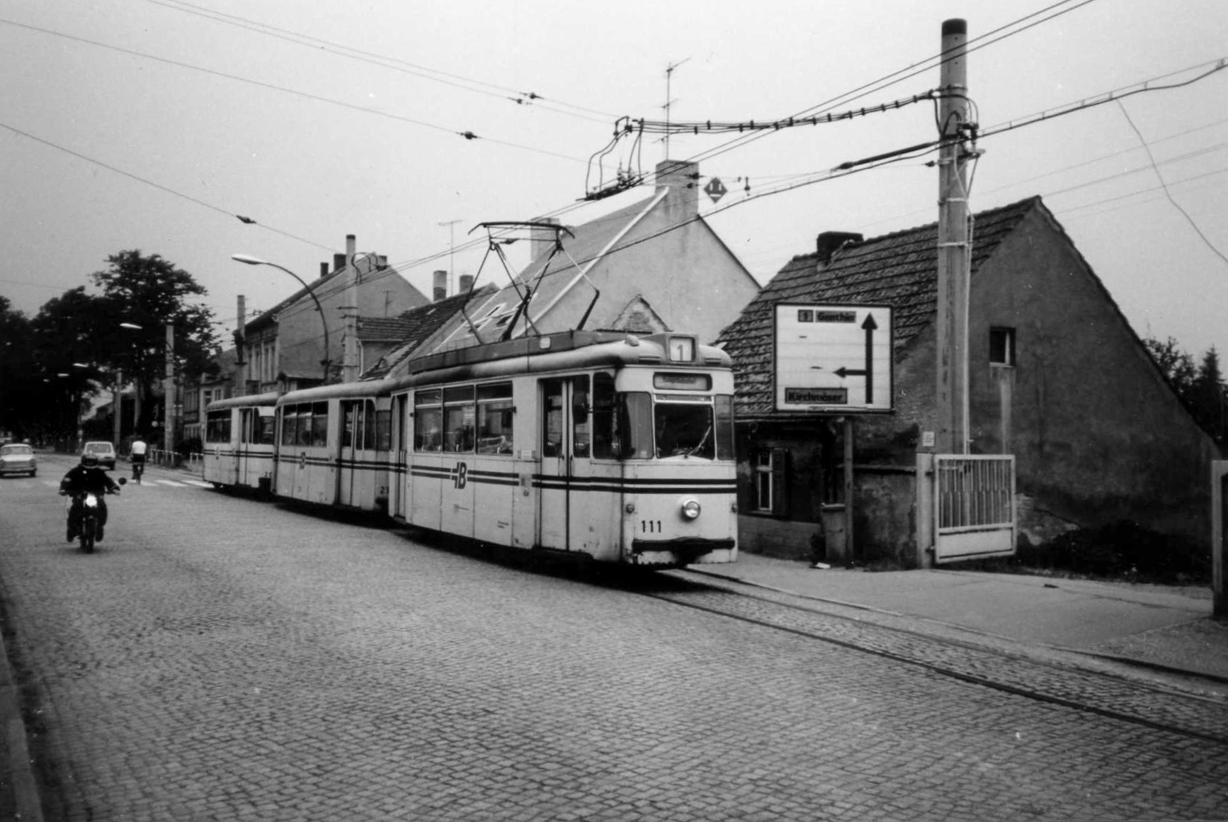 The overland route to Plaue has since been abandoned. A section of the old track on the Havel bridge to Plaue still exists ,as captured by @Judith74